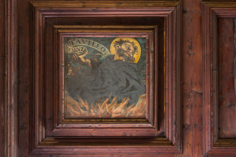 Medieval picture of Saint Nikola Tavelić in church of St. Francis of Assisi in Šibenik (Croatia)